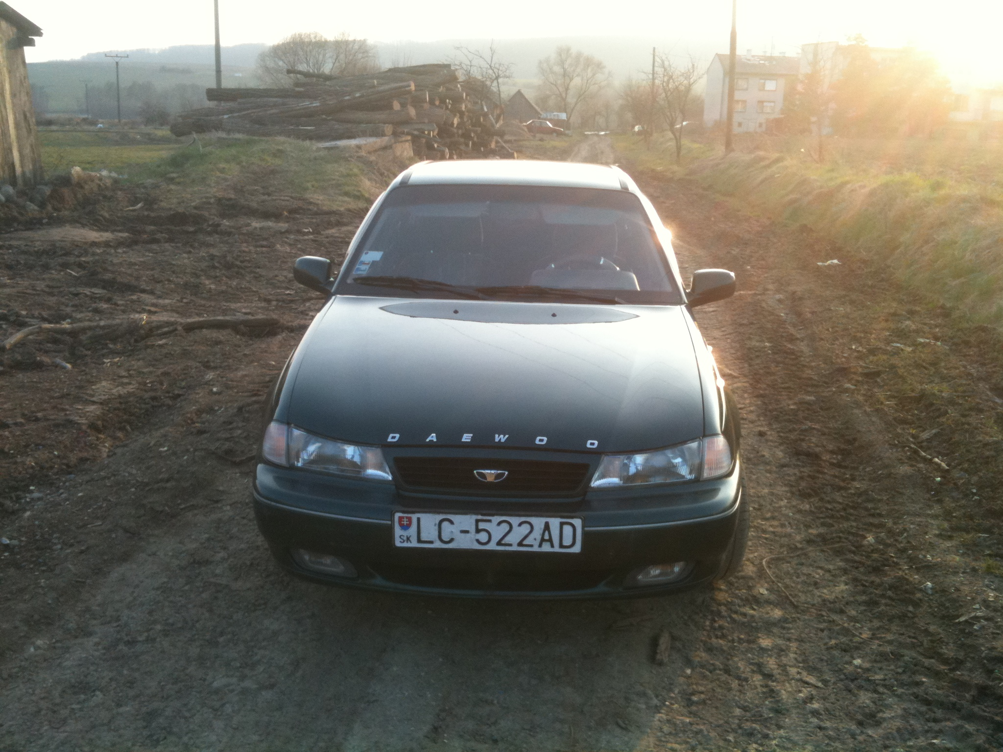 My Daewoo Nexia on dirt road